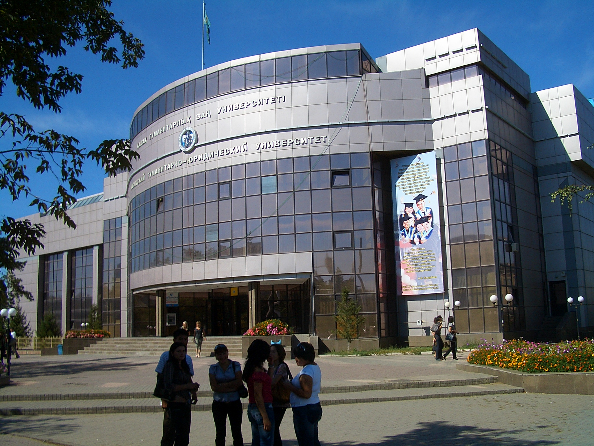 "The Kazakh University of Liberal Arts and Law", Nur-Sultan